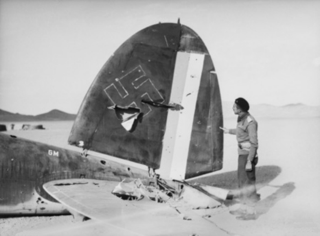 Tail of a crashed German Heinkel He 111H-6 bomber at Palmyra, Syria, in December 1941. Aircraft of the 4. Staffel, II. Gruppe, KG 4 (4th Squadron, 2nd Group, 4th Bomb Wing) operated briefly in Iraq in May 1941, their German markings being overpainted with Iraqi ones.